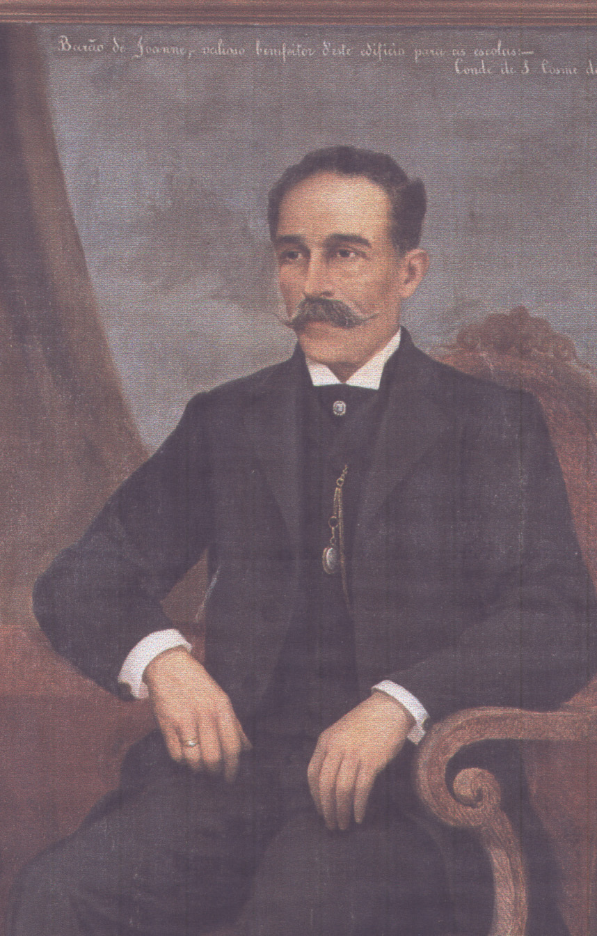 2. º Baron joane